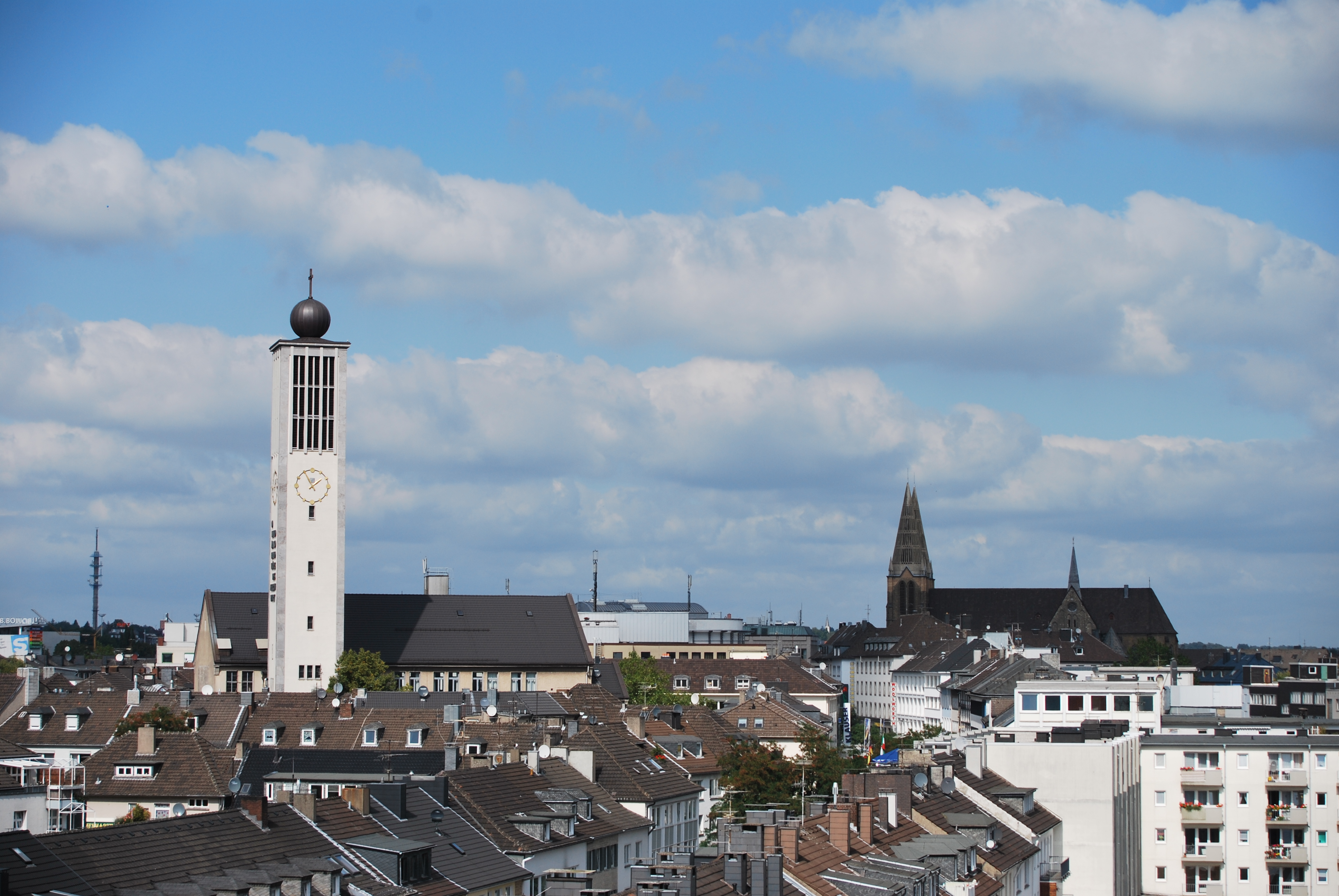 Centre of Solingen. View on the ref. Citychurch (left) and St. Clemens (right).